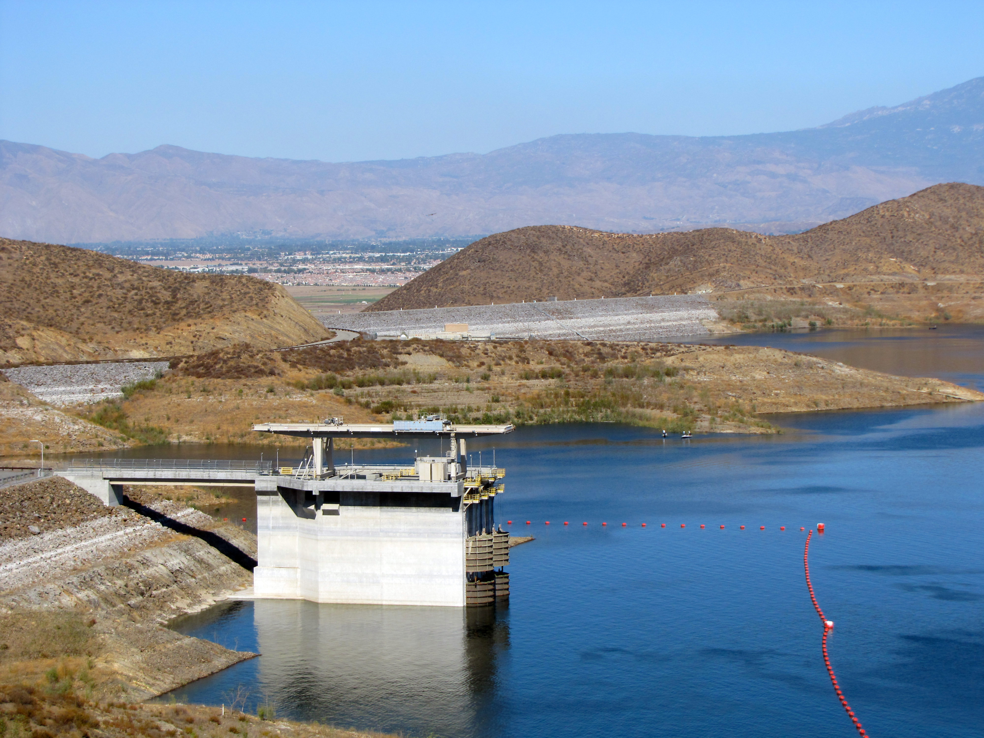 The Saddle dam and I/O tower at Diamond Valley Lake — an off-stream reservoir located southwest of Hemet in Riverside County, California. Set in low hills of the northwestern Peninsular Ranges.